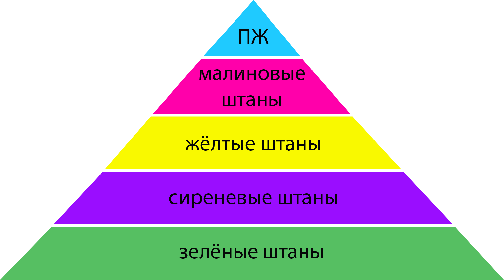 Стратификация социума в соответствии с цветом штанов